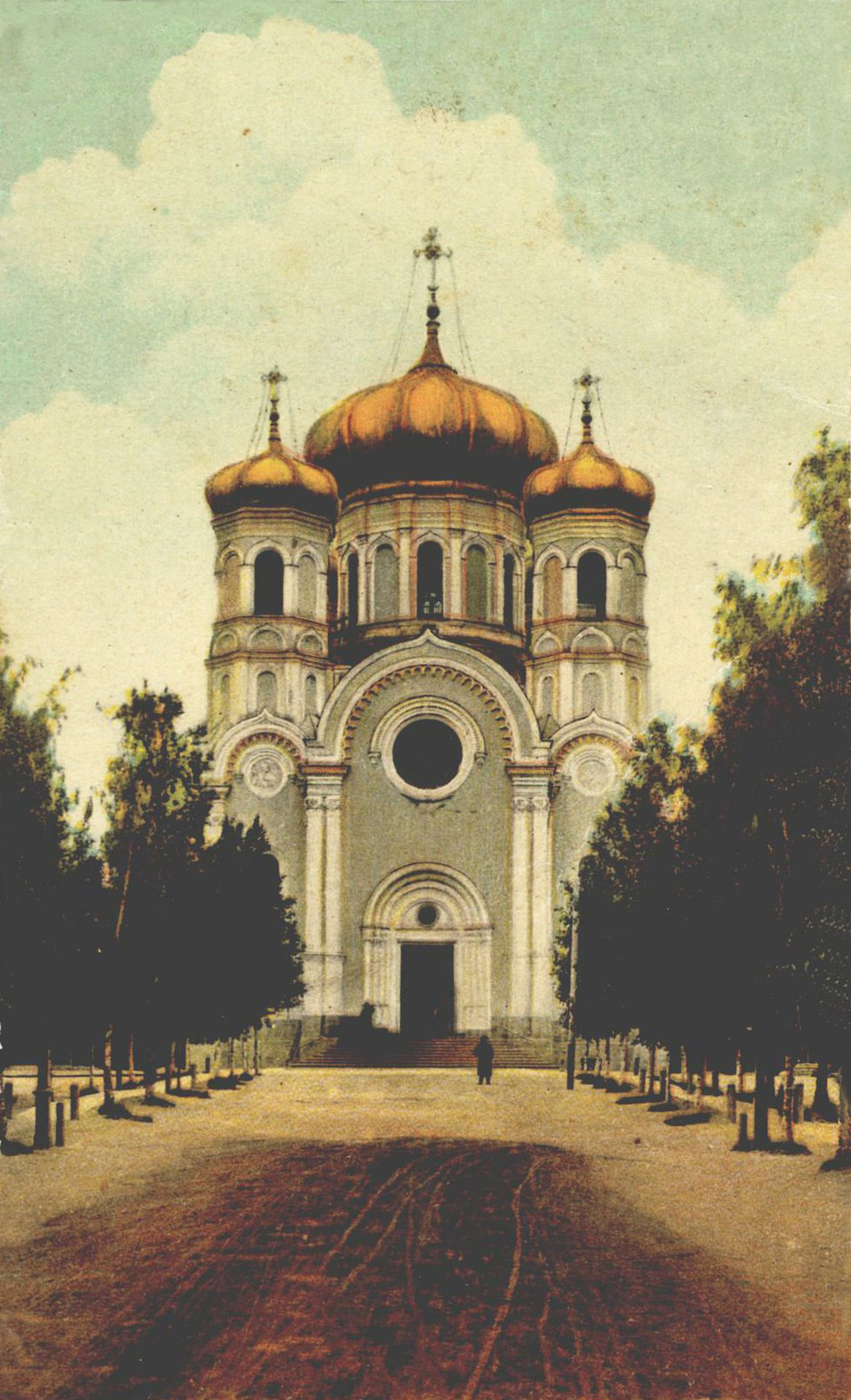 Gatchina (Russia), Cathedral.